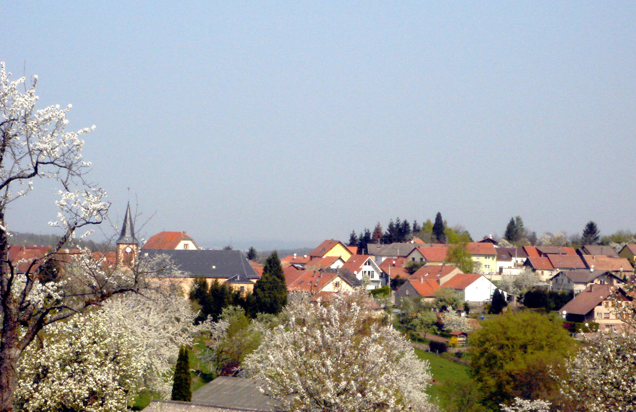 Picture of the Garrebourg village, Moselle, Lorraine, France